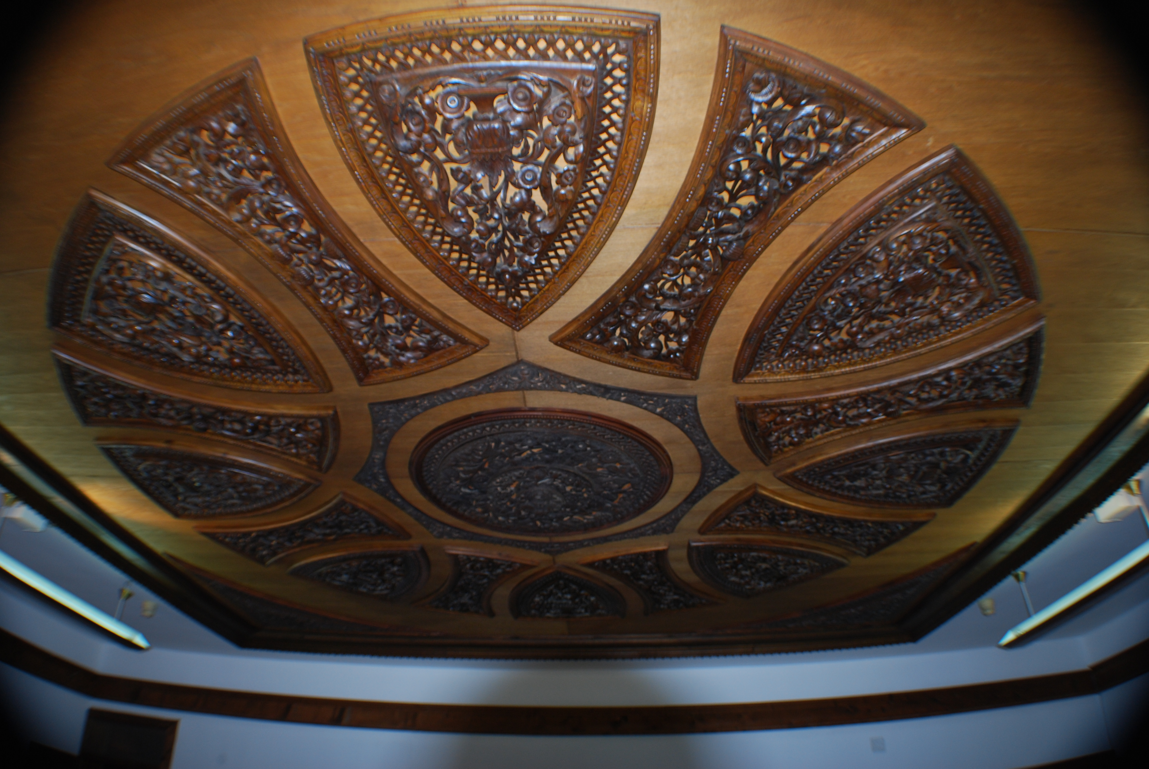 The Robevi house in Ohrid, one of the most famous architectural monuments in Macedonia. It was built in its current state in 1863 - 1864 by Todor Petkov from a village Gari near Debar. Today the house is a protected monument of culture under the "Institute for protection of cultural monuments in Ohrid". Currently, in houses is the "The Archeological museum of Ohrid". More...